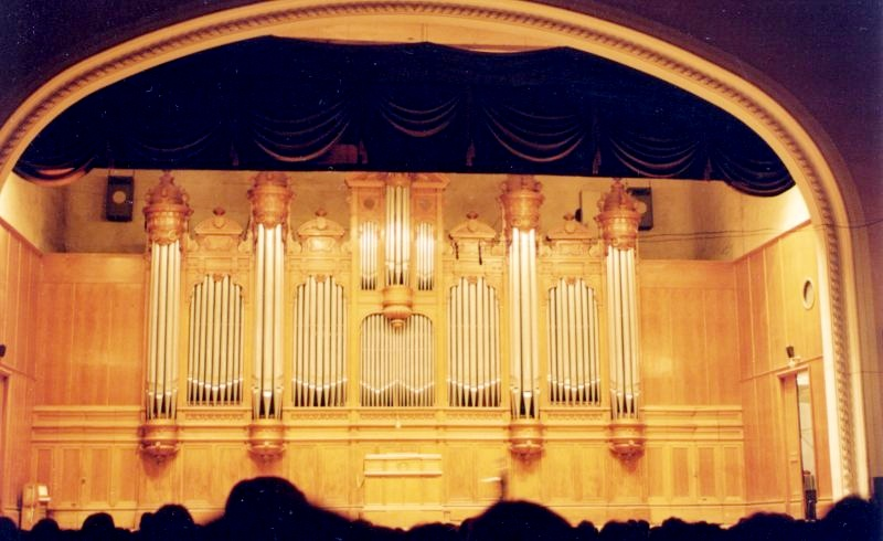 Mutin-Cavaillé Coll Organ of the Great Hall of Moscow Conservatory